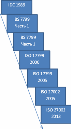 появление ИСО 27002